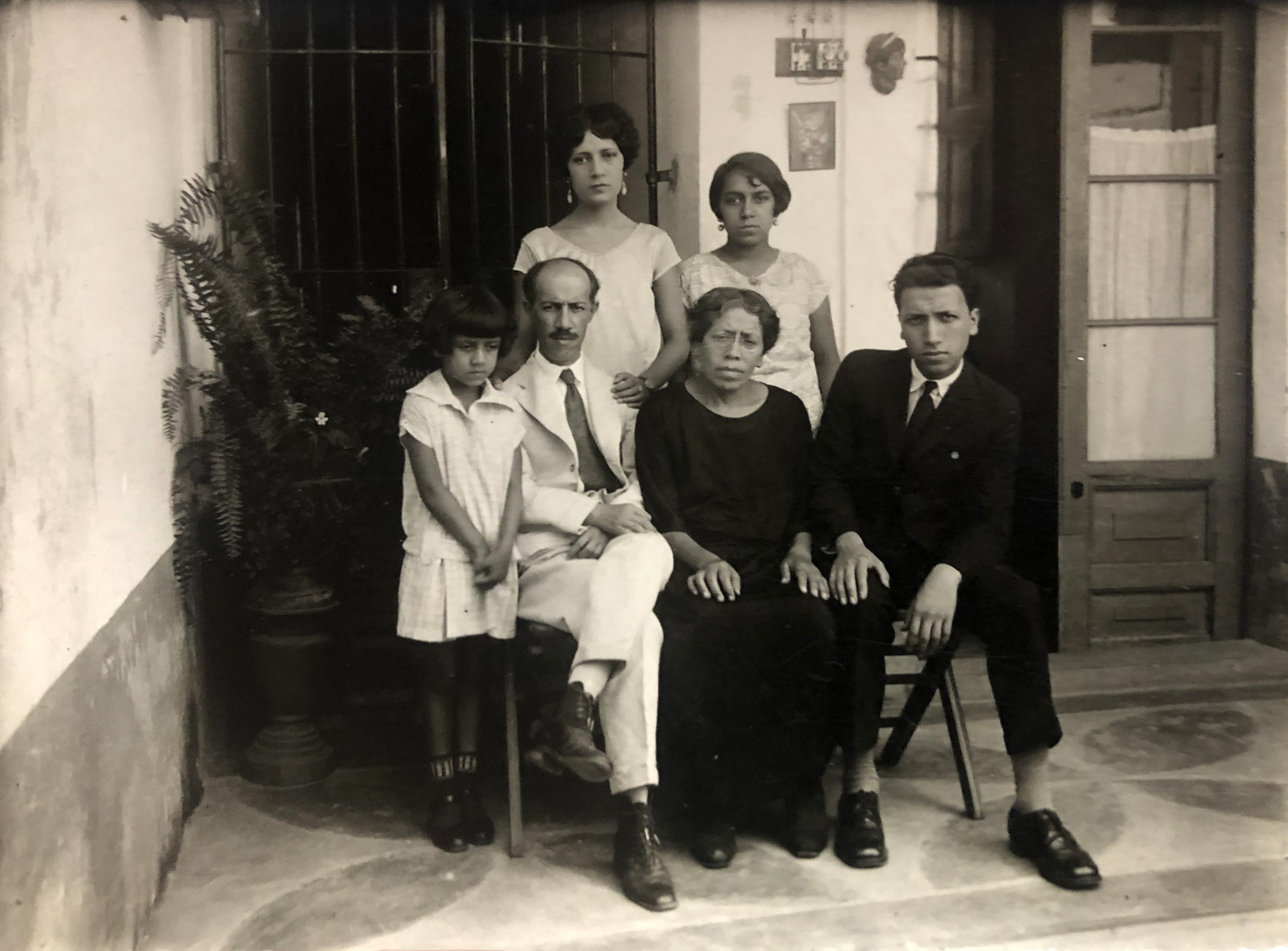 Fotografía del compositor mexicano José Pomar rodeado de su familia, tomada al final de la década de 1920.